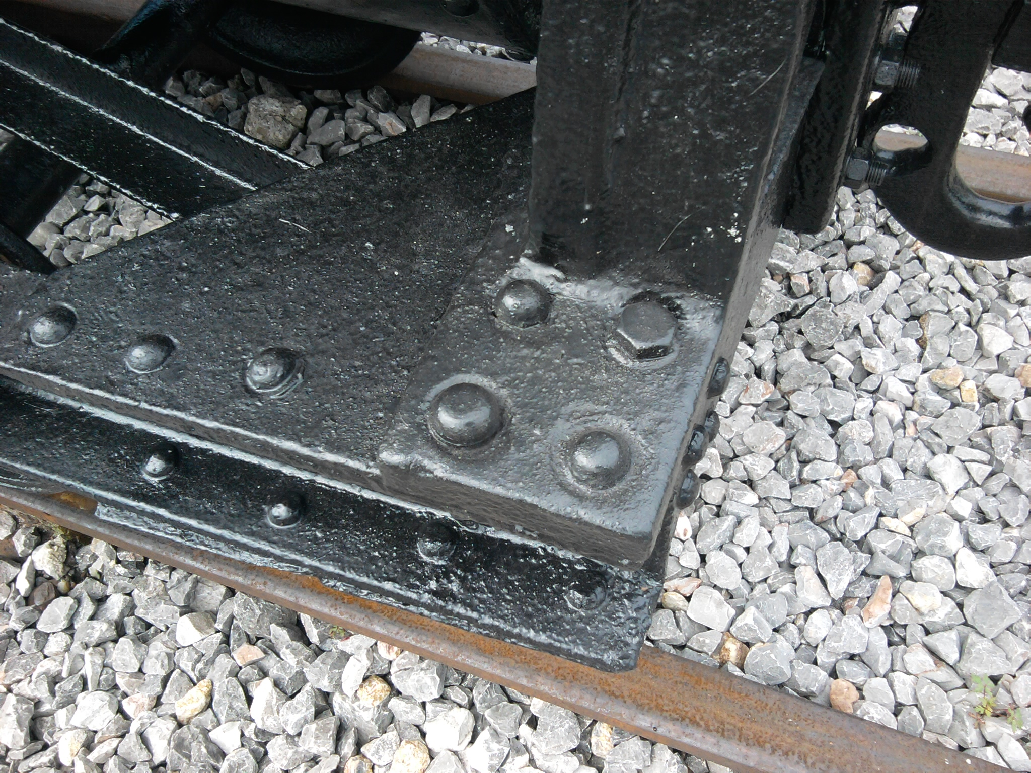 Solid Rivets in a wagon.